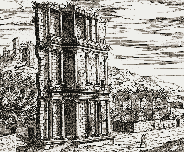 The Septizonium, Roman nymphaneum near the Palatin hill. Fragment of the etching.